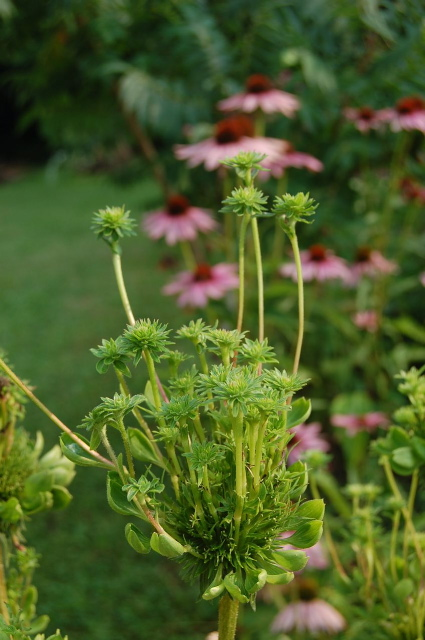 Purple coneflower (Echinacea purpura) showing phyllody due to aster yellows infection. Normal, non-infected coneflowers can be seen in the background. Taken in Chaska, Minnesota.